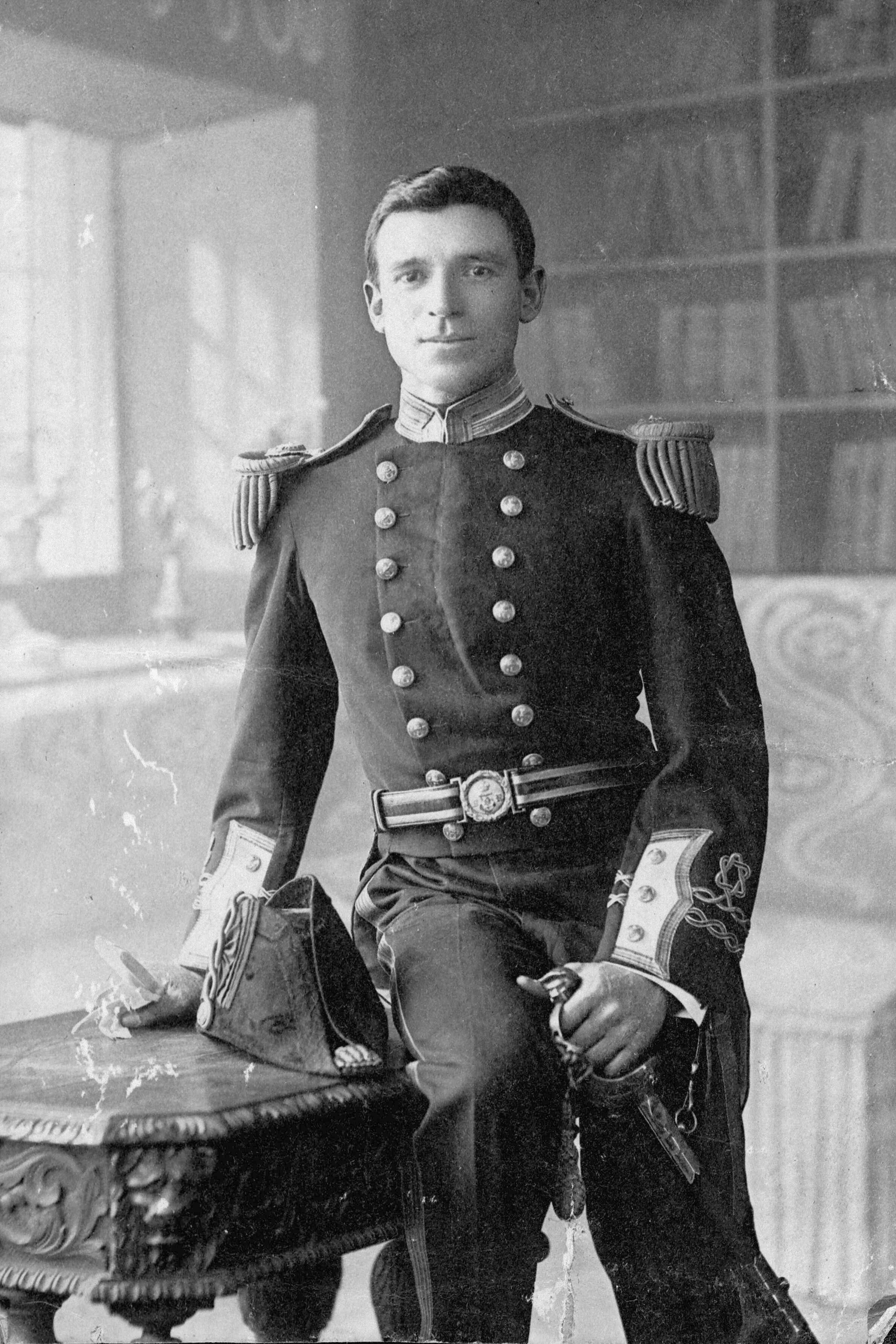 Frank Worsley.